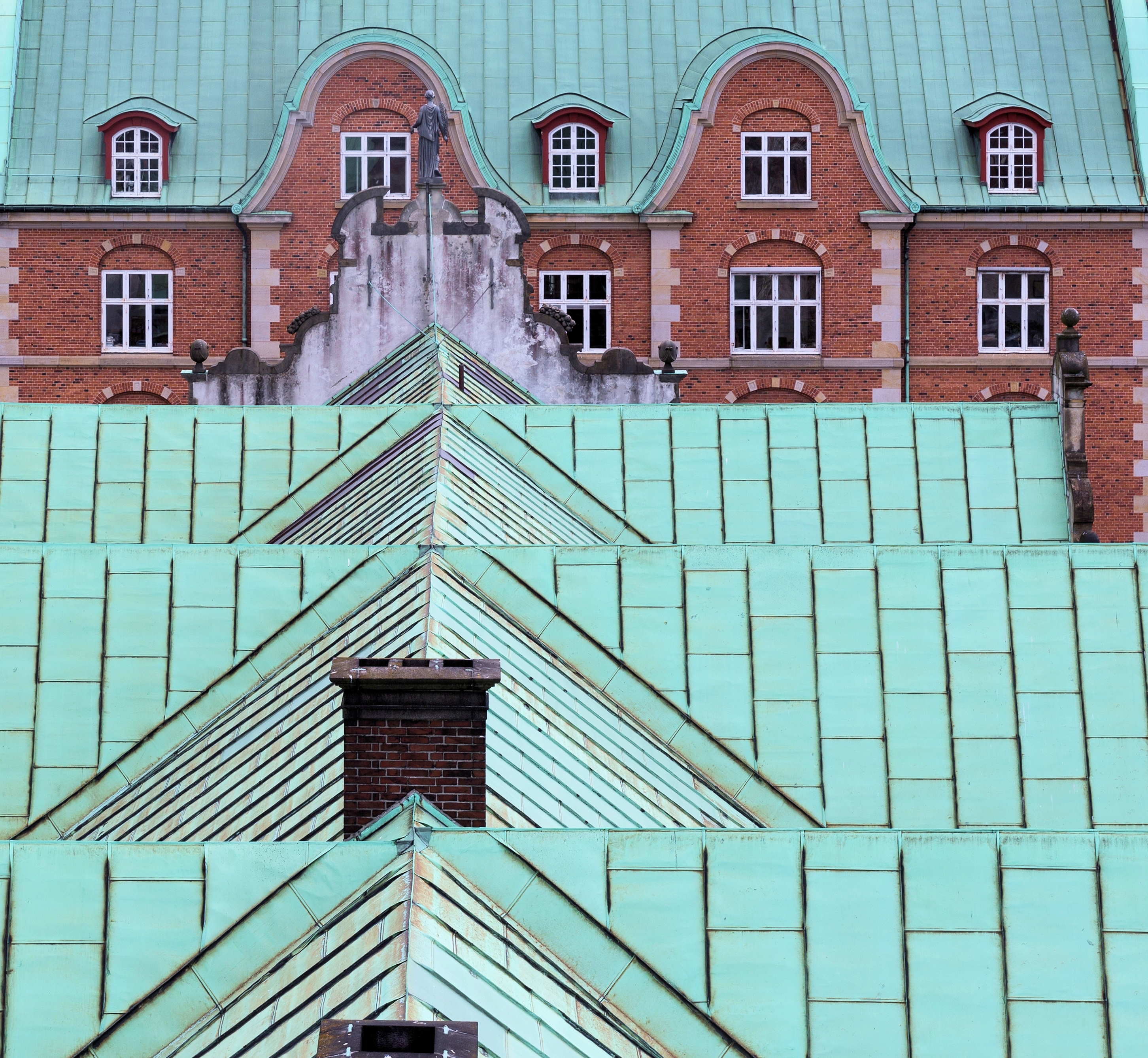 Abstract view from Børsen